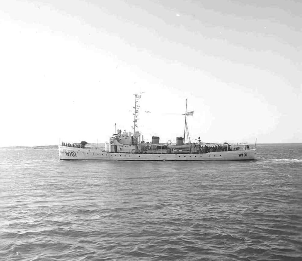 United States Coast Guard Cutter Ariadne (WPC-101), based in St. Petersburg, Florida, on patrol in the Florida Straits, autumn 1965. Ariadne participated in the Camarioca boatlift in October 1965.